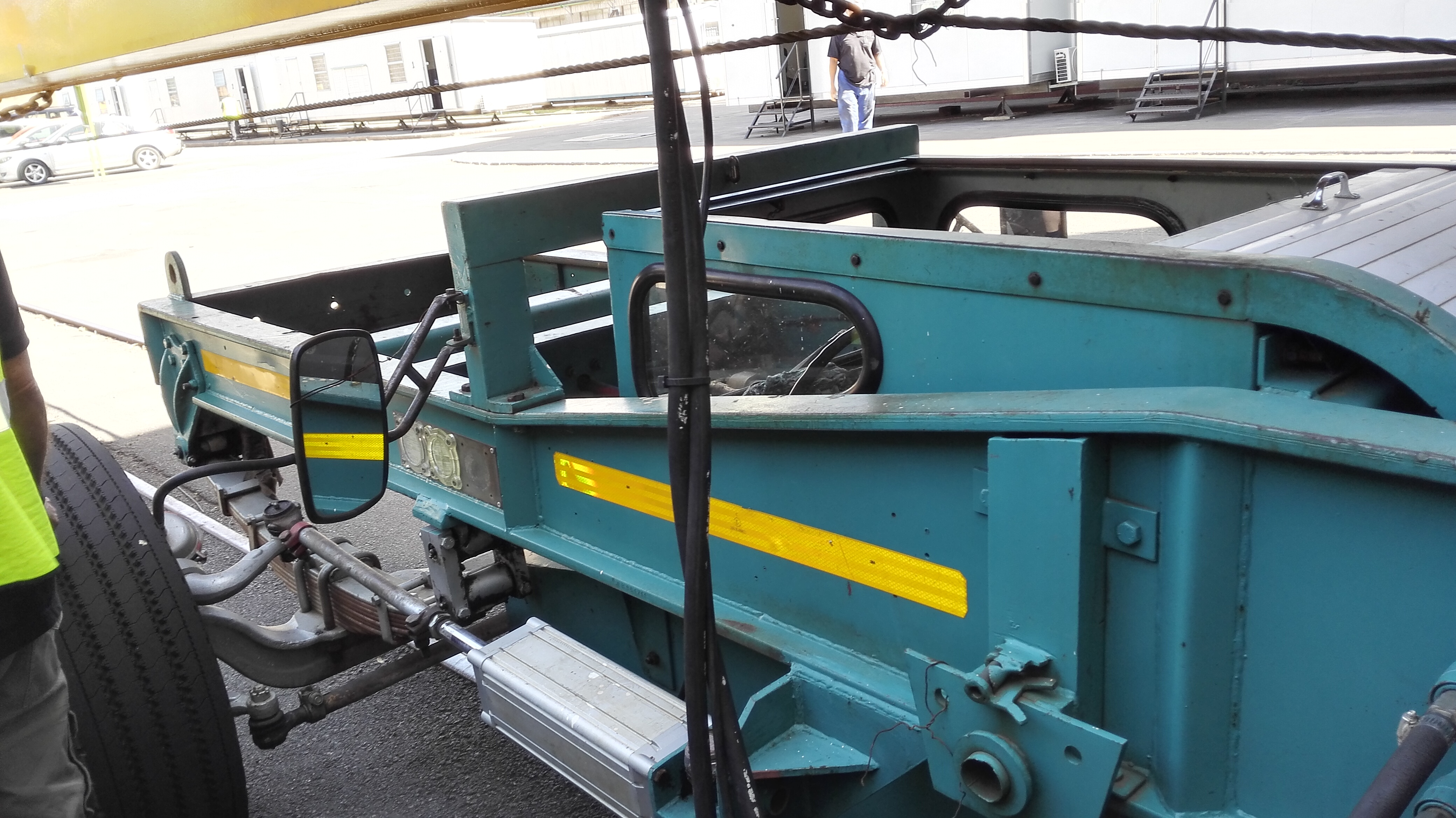 Work place of the tillerman in a dolly used for transporting overhead cranes.